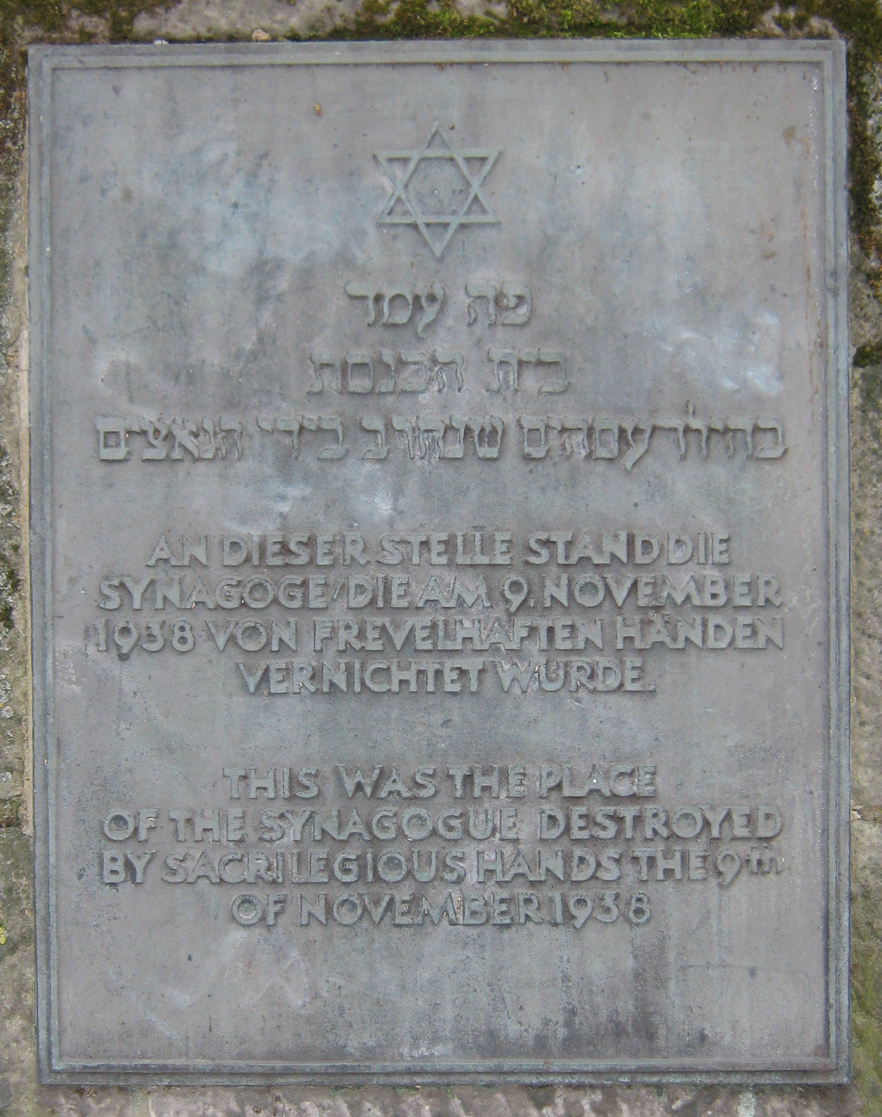 memorial